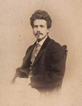 Julius Peter Christian Petersen (1839-1910), Danish mathematician, professor at the University of Copenhagen